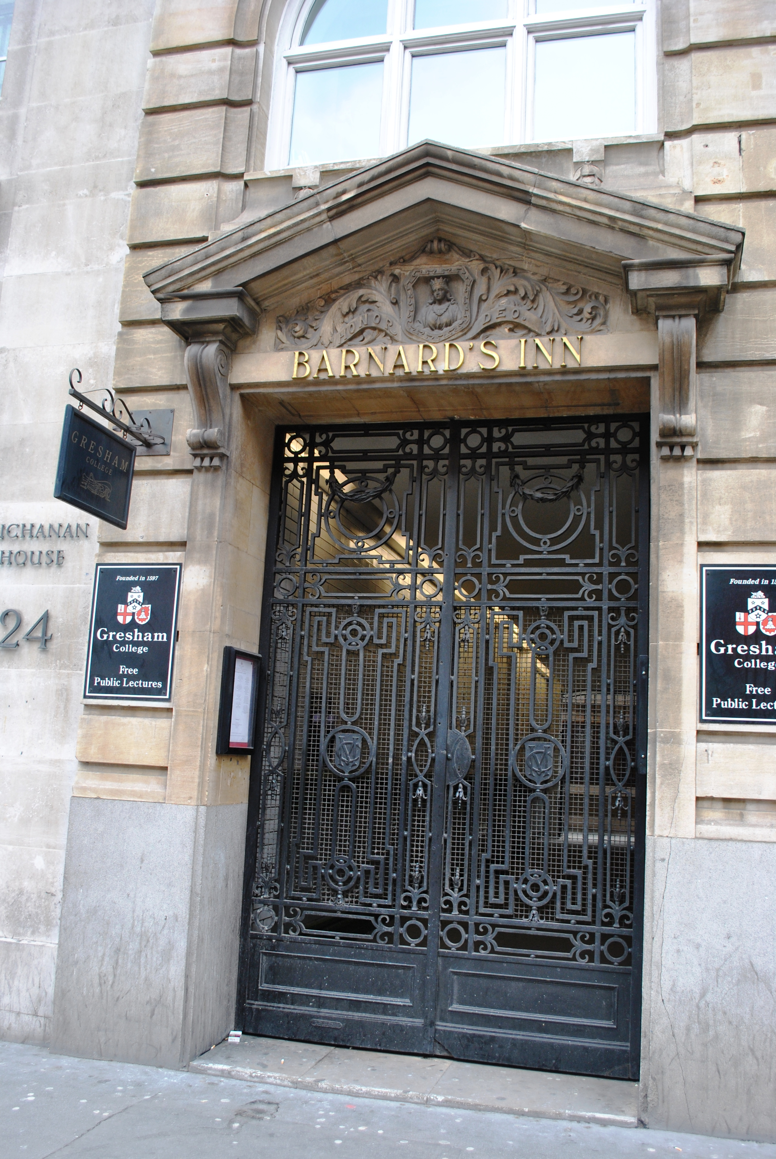 Mercer's School Hall and Buildings Adjoining Mercer's School Hall